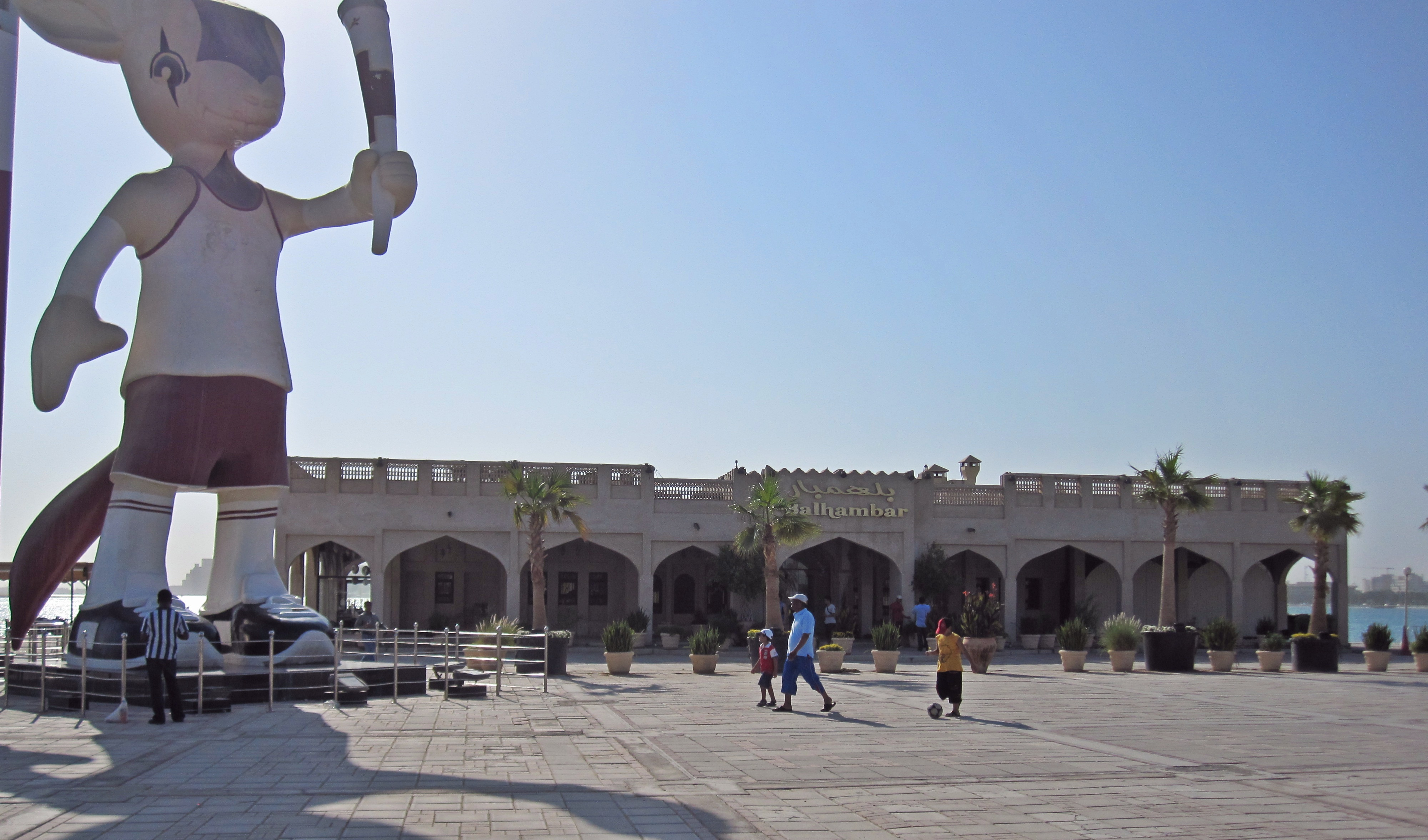 Balhambar restaurant, Al Corniche, Doha. A statue of mascot of 2006 Asian Games - Orry can be seen in the front